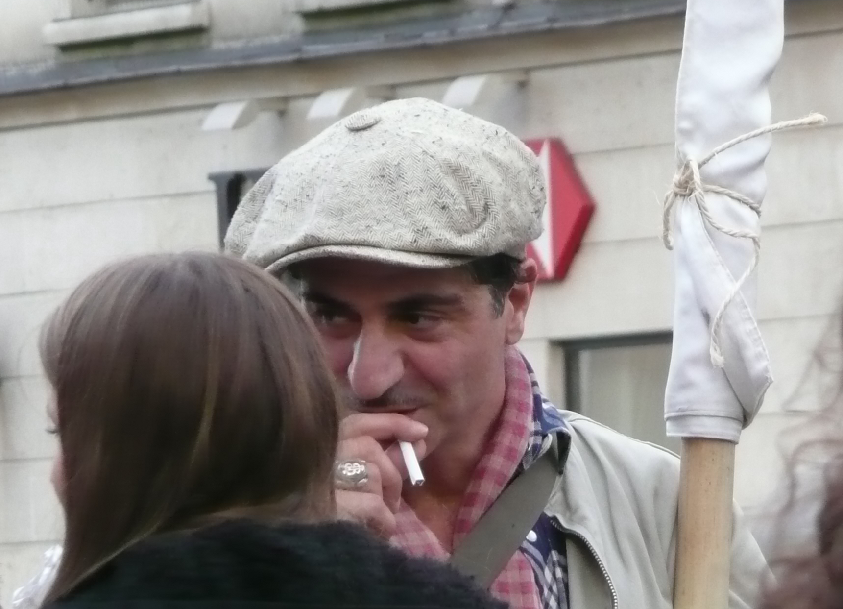 Simon Abkarian, french actor, october 16, 2010